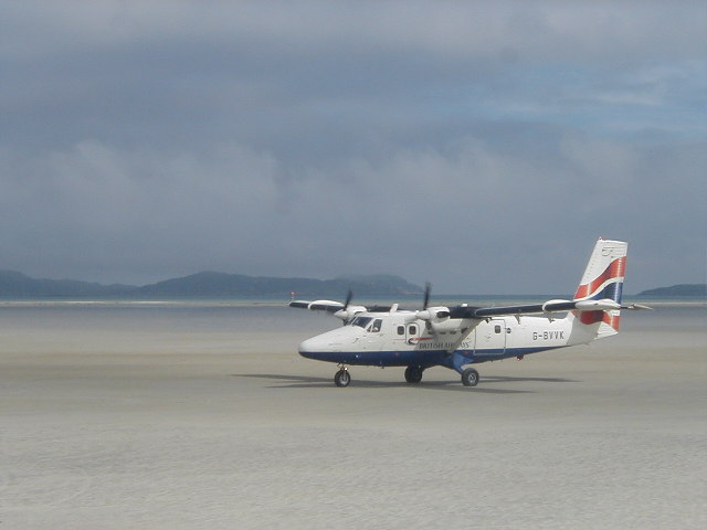 A Loganair Twin Otter (G-BVVK) (in BA colours) lands at Barra Airport - the only airport in the world where the arrival of scheduled flights varies with the tide as planes land on the beach.